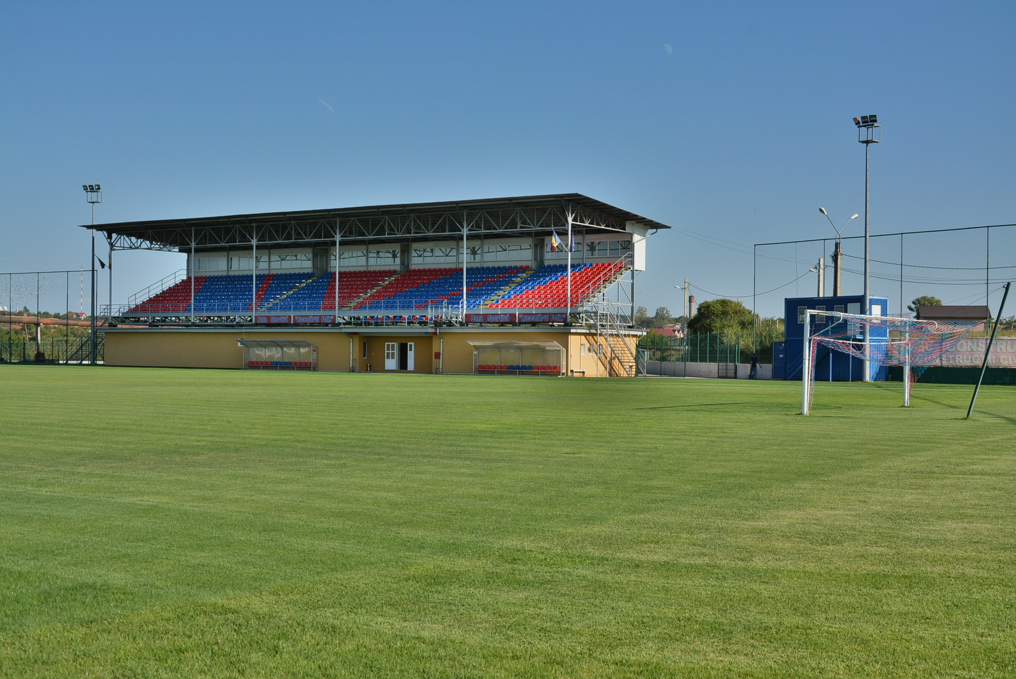 Luceafărul Stadium, from Sânmartin, Bihor County, Romania.